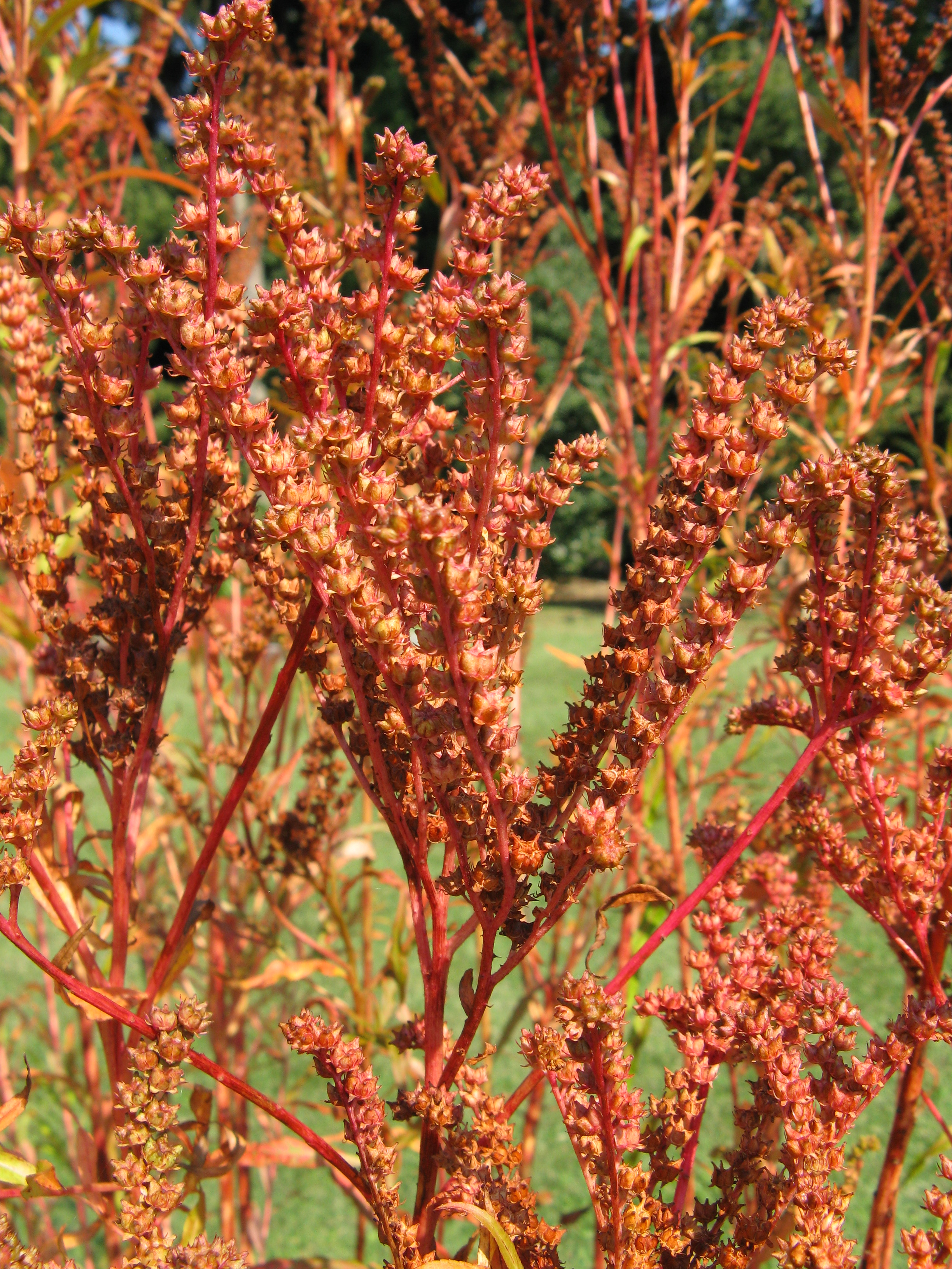 Scientific name Penthorum chinense